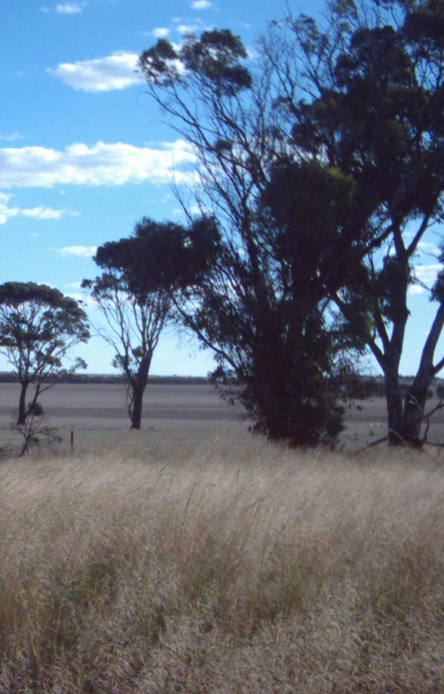 This is a cropped version of Image:Newdegate agri station.jpg, which was taken by Gnangarra on 18 March 2006, in the vicinity of Newdegate, Western Australia. It shows a typical landscape and land use of southern parts of Western Australia's Wheatbelt.